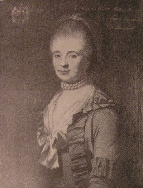 Magdalene Charlotte Hedevig Løvenskiold, née Numsen (1731-1796), Danish baroness and noblewoman